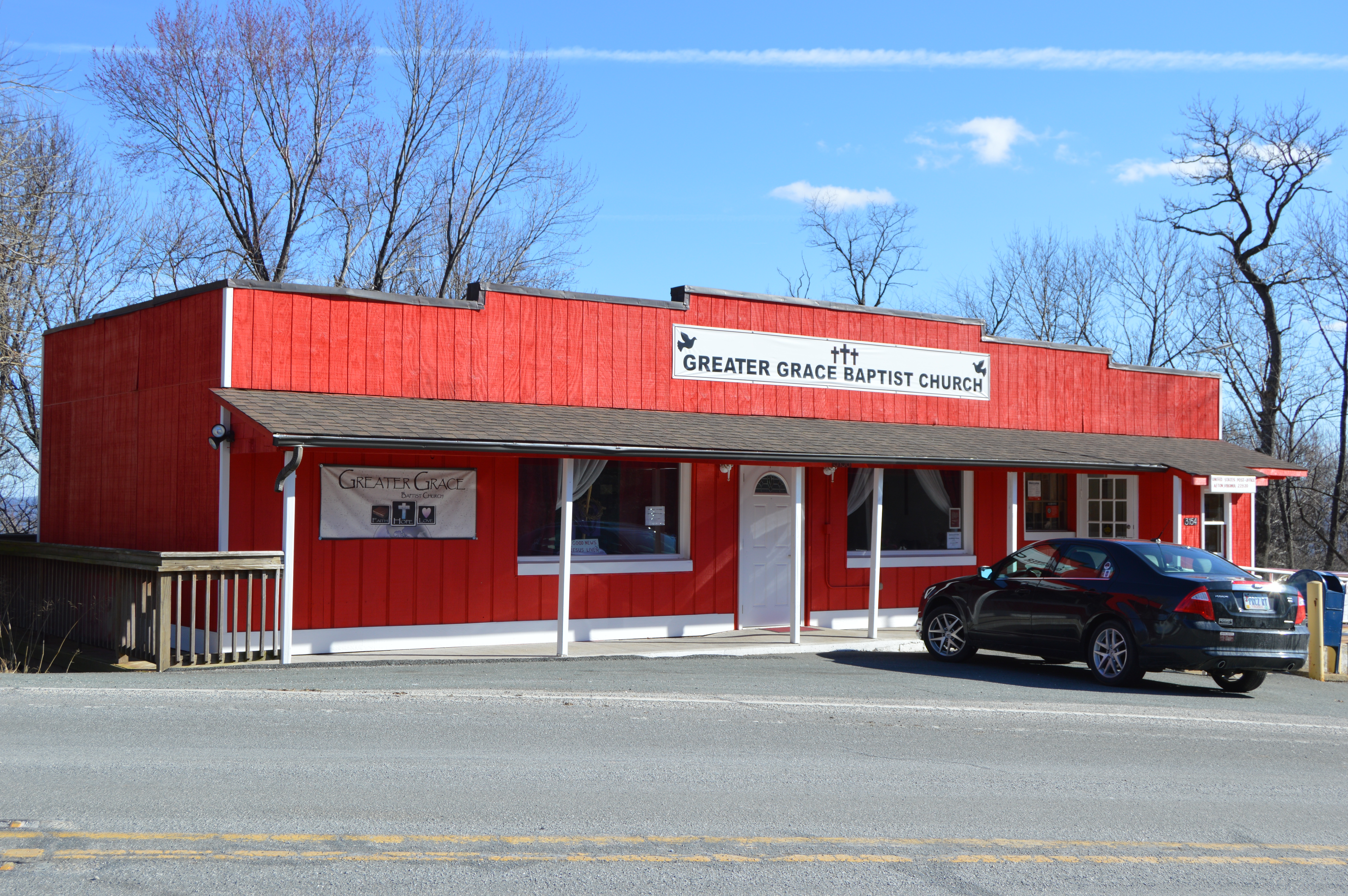 Front of Greater Grace Baptist Church (main section) and the Afton post office (right), located at 3154 State Route 6 in Afton, Virginia, United States. Like the rest of the community, it is a part of the Greenwood-Afton Rural Historic District, a historic district that is listed on the National Register of Historic Places.